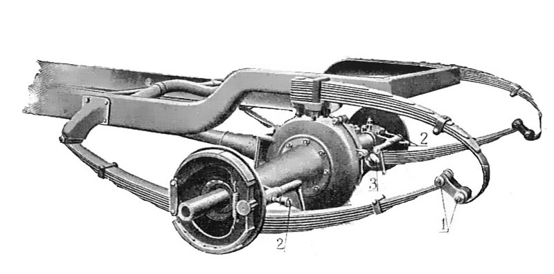 Fig. 177a Rear axle and suspension leaf springs of an early car chassis Chassis fitted with three-quarter elliptic leaf springs for the rear-axle The back axle uses the torque-tube method of location Scans from 'The Book of the Motor Car', Rankin Kennedy C.E., 1912 See other images from this source in Scans from 'The Book of the Motor Car'